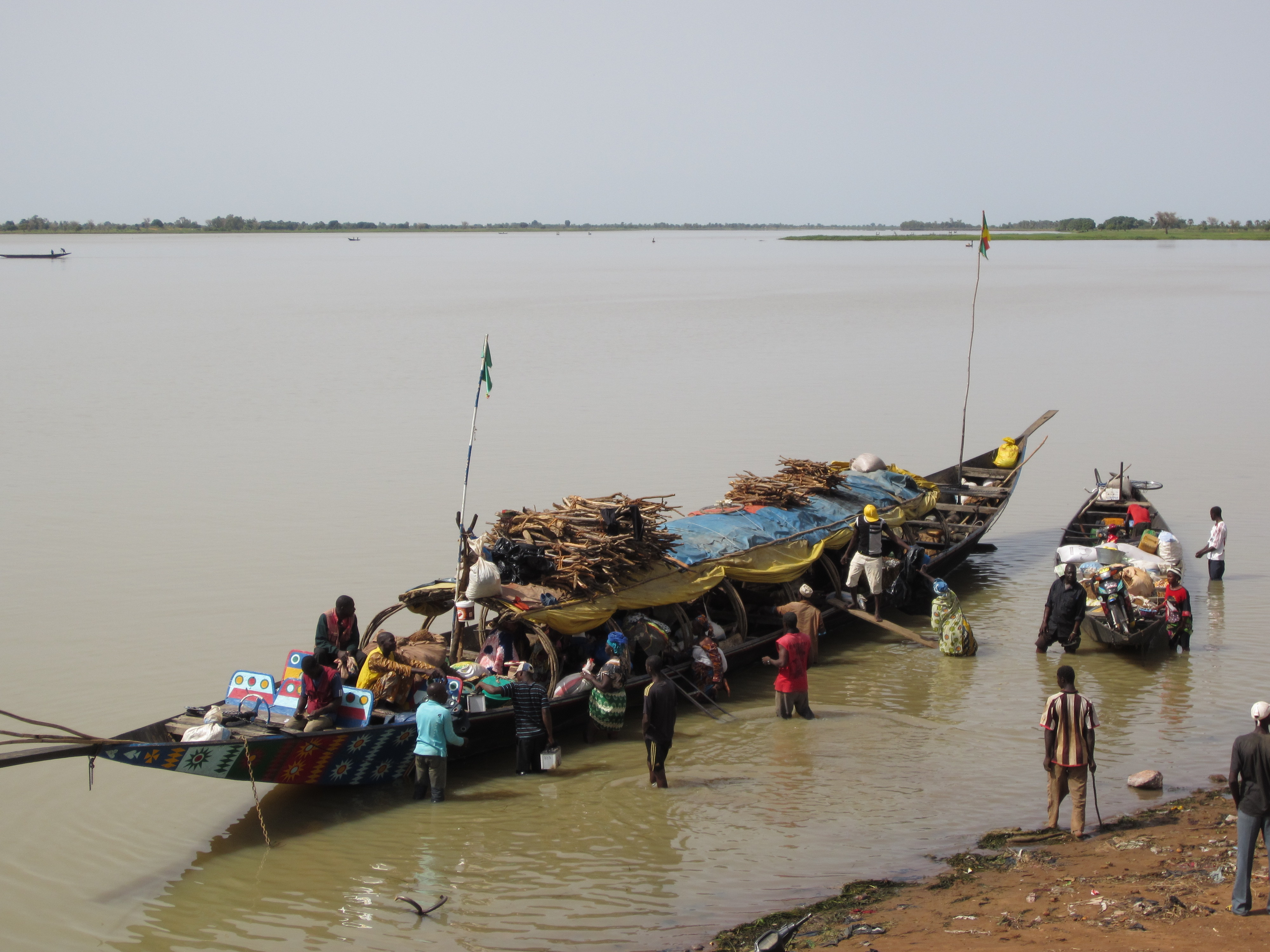 This is an image with the theme "Africa on the Move or Transport" from: Mali